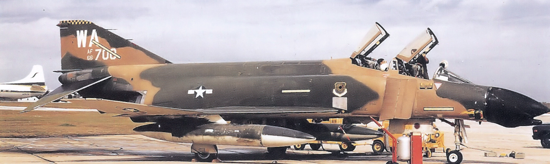 422d Fighter Weapons Squadron McDonnell F-4D-32-MC Phantom 66-8700. Retired to AMARC 14 March 1989